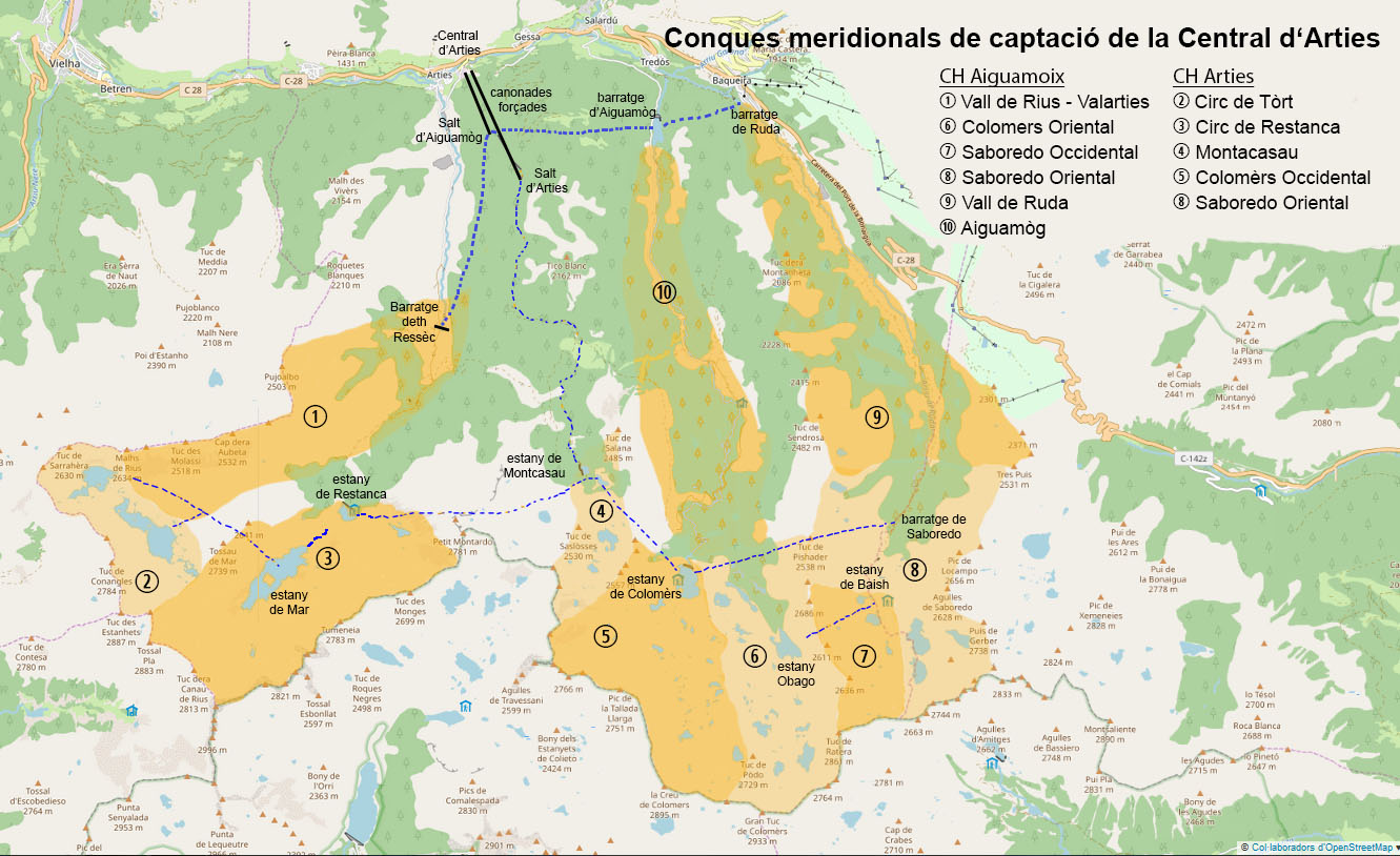 Drainage basins of Arties hydropower plant (Catalonia)